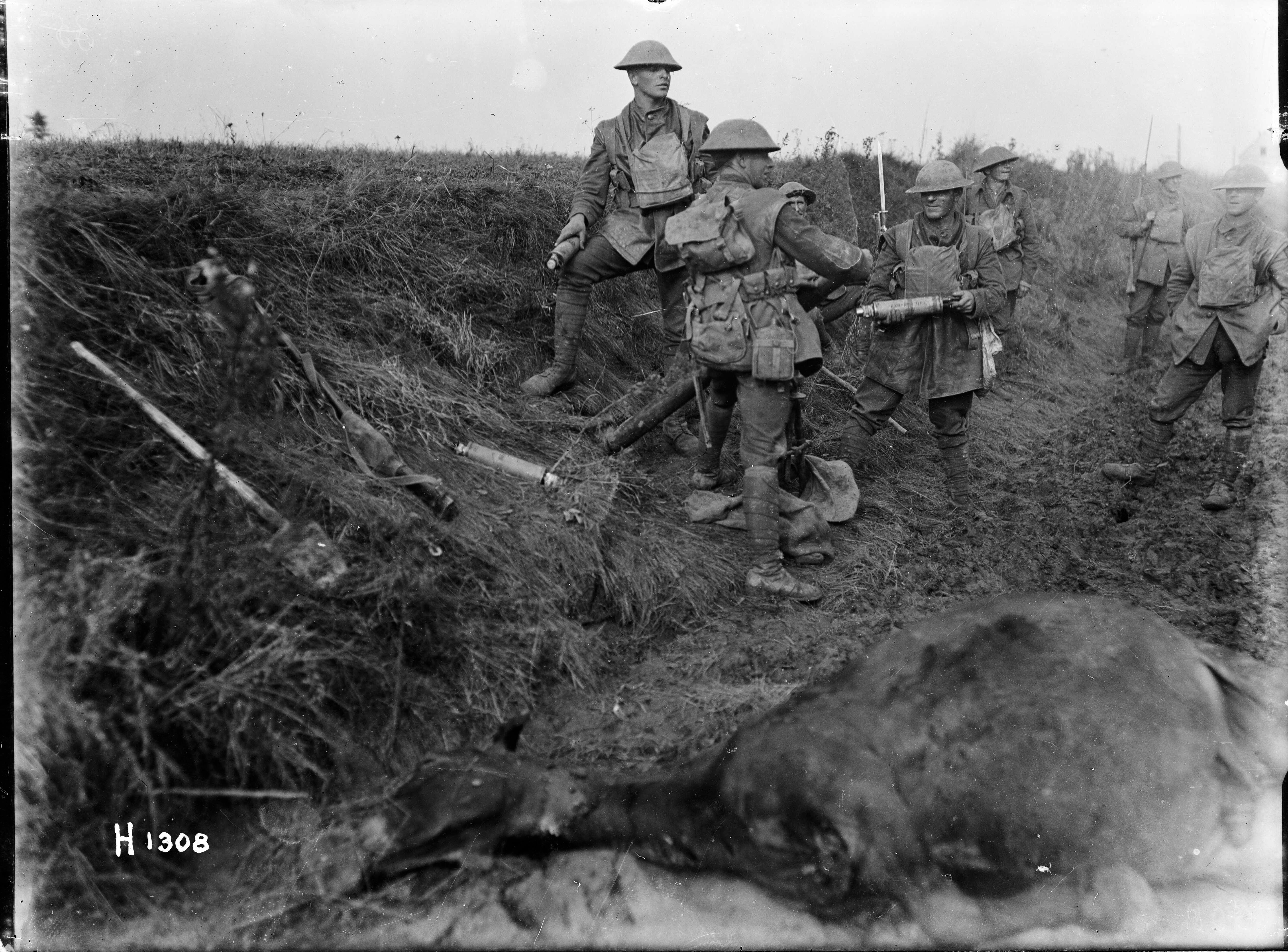 Members of the New Zealand Rifle Brigade at the front in Stokes Trench, operating a mortar. Photographed some time in 1918 by Henry Armytage Sanders. Ref: 1/2-013798-G. Alexander Turnbull Library, Wellington, New Zealand.